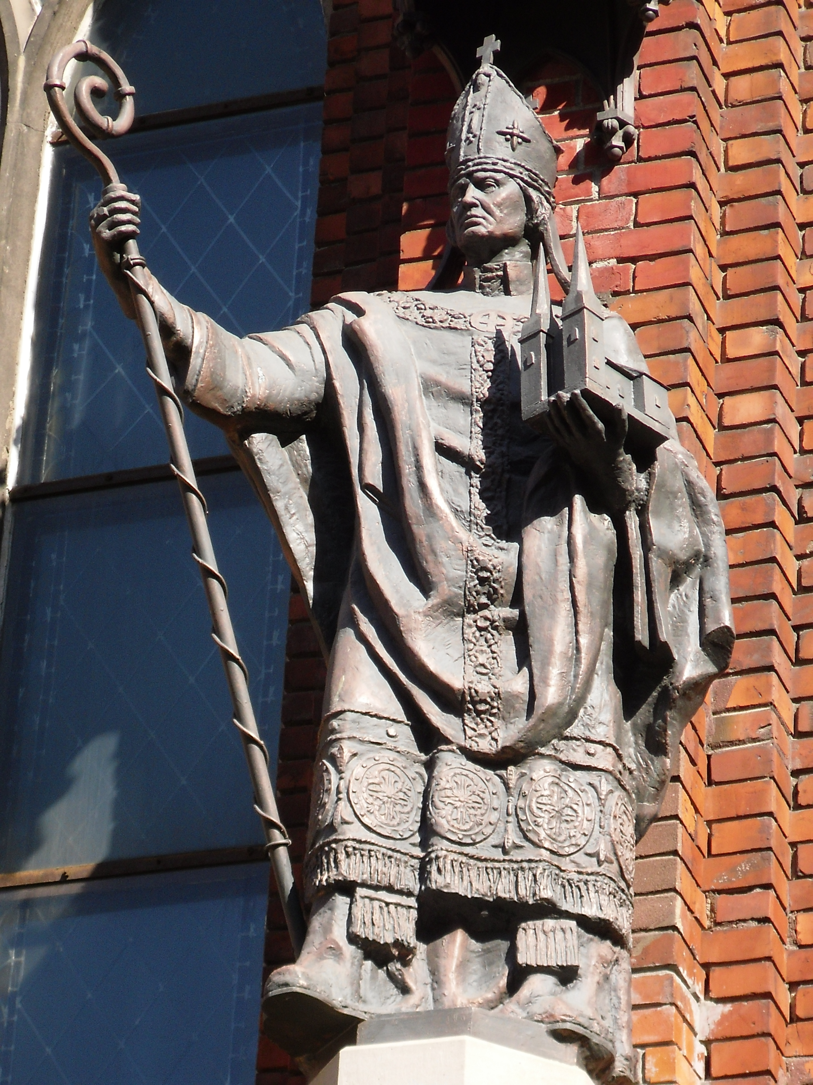 Albert of Riga, Riga Dome CathedralNorsk bokmål: Albert av Riga, Riga Domkirke